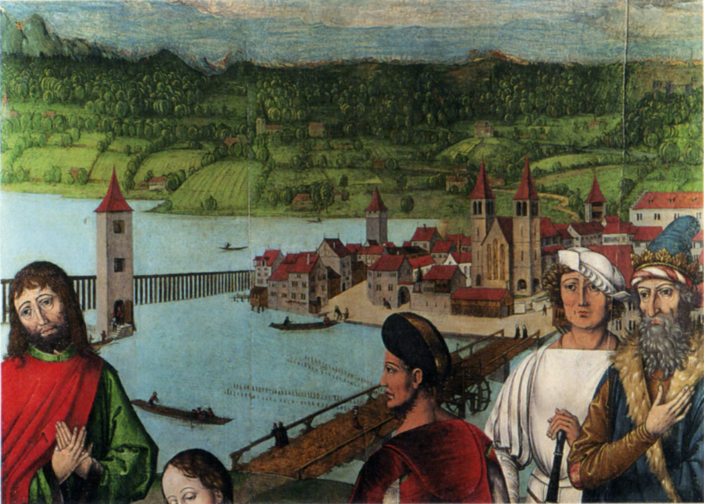 Detail of the remainings of the original altarpiece from the shrine of Felix and Regula in the Grossmünster showing the martyrdom in front of a panorama of the city of Zurich